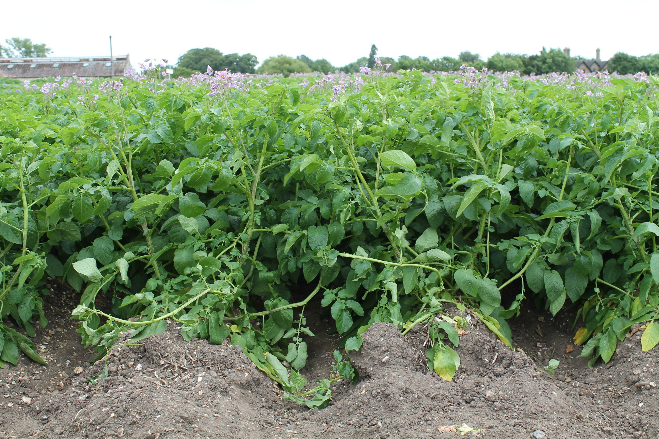 A photograph of a crop of Maris Piper during flowering. Taken from the side, shortly after neighbouring plants were harvested.